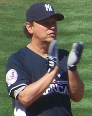 Crystal at the 2008 All Stars and Legends Softball game at Yankee Stadium